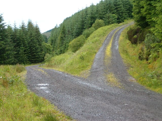 Decisions, decisions. The road on the left is the "Glen Road" running down towards Loch Avich.